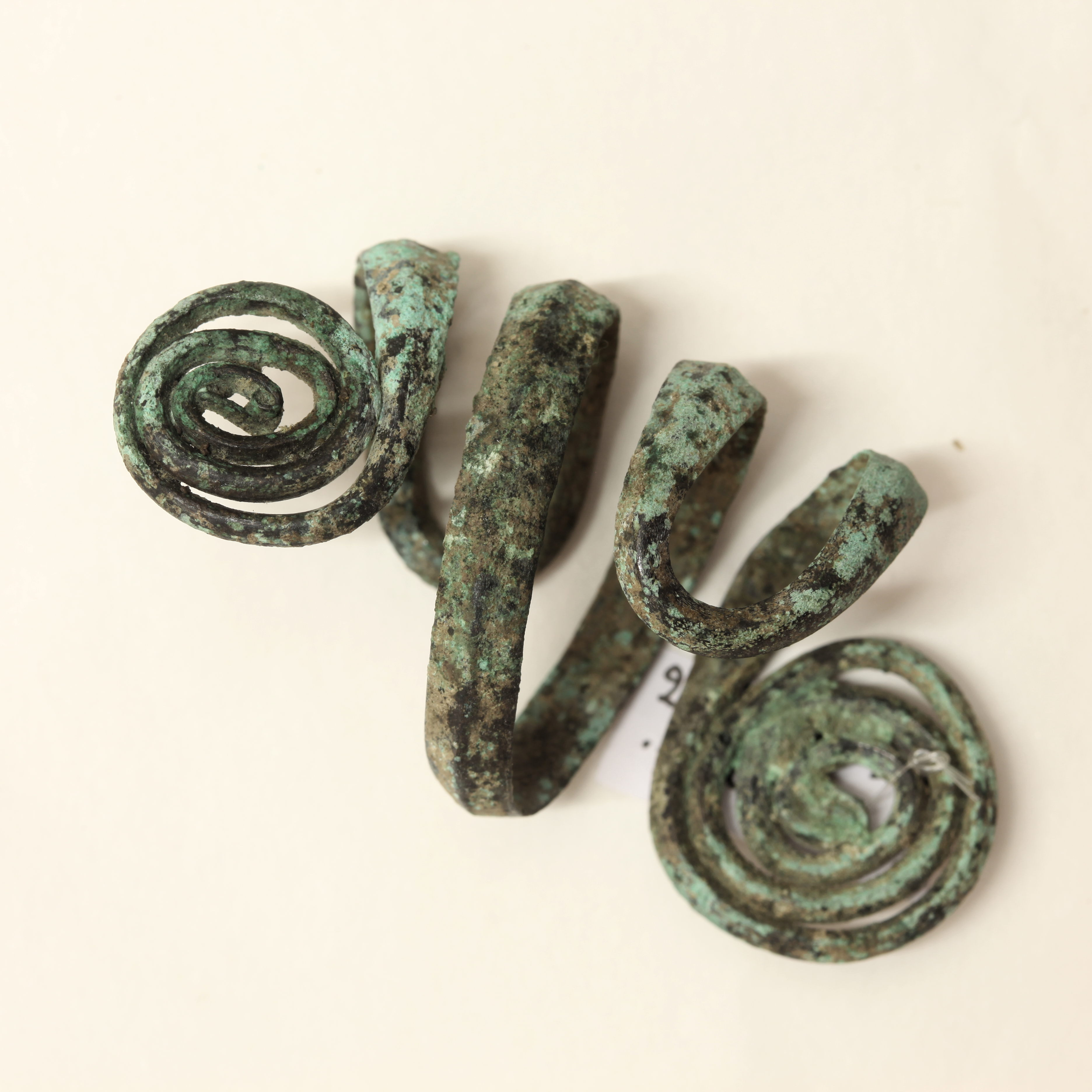 Ram-headed pendant. Elements of jewelery from sepulture n°9. Iron Age, 813 BCE. Kobanian culture, Caucase, site of Koban. On display at Fourvière Gallo-Roman museum.